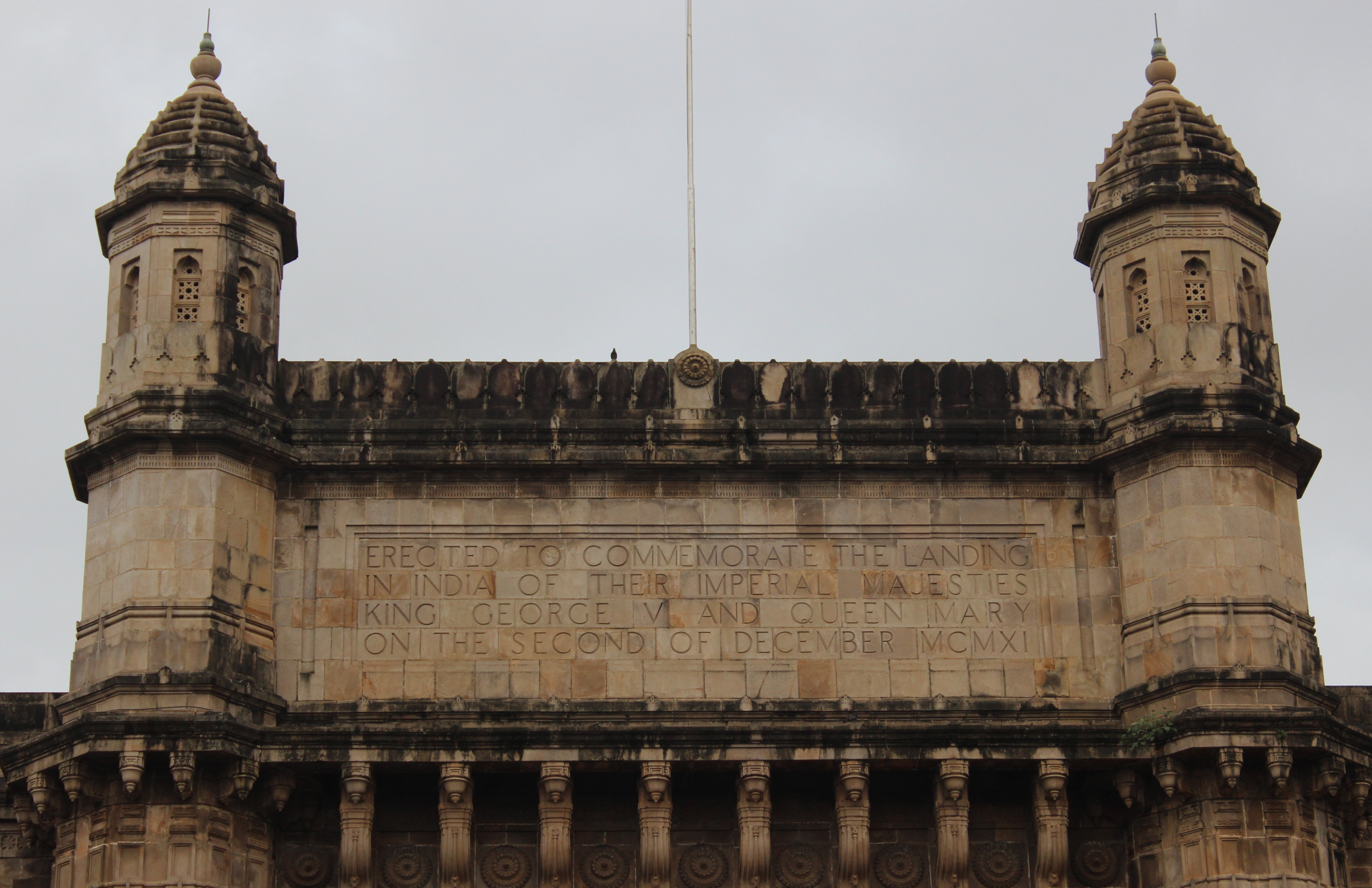 the writing on the gateway of india